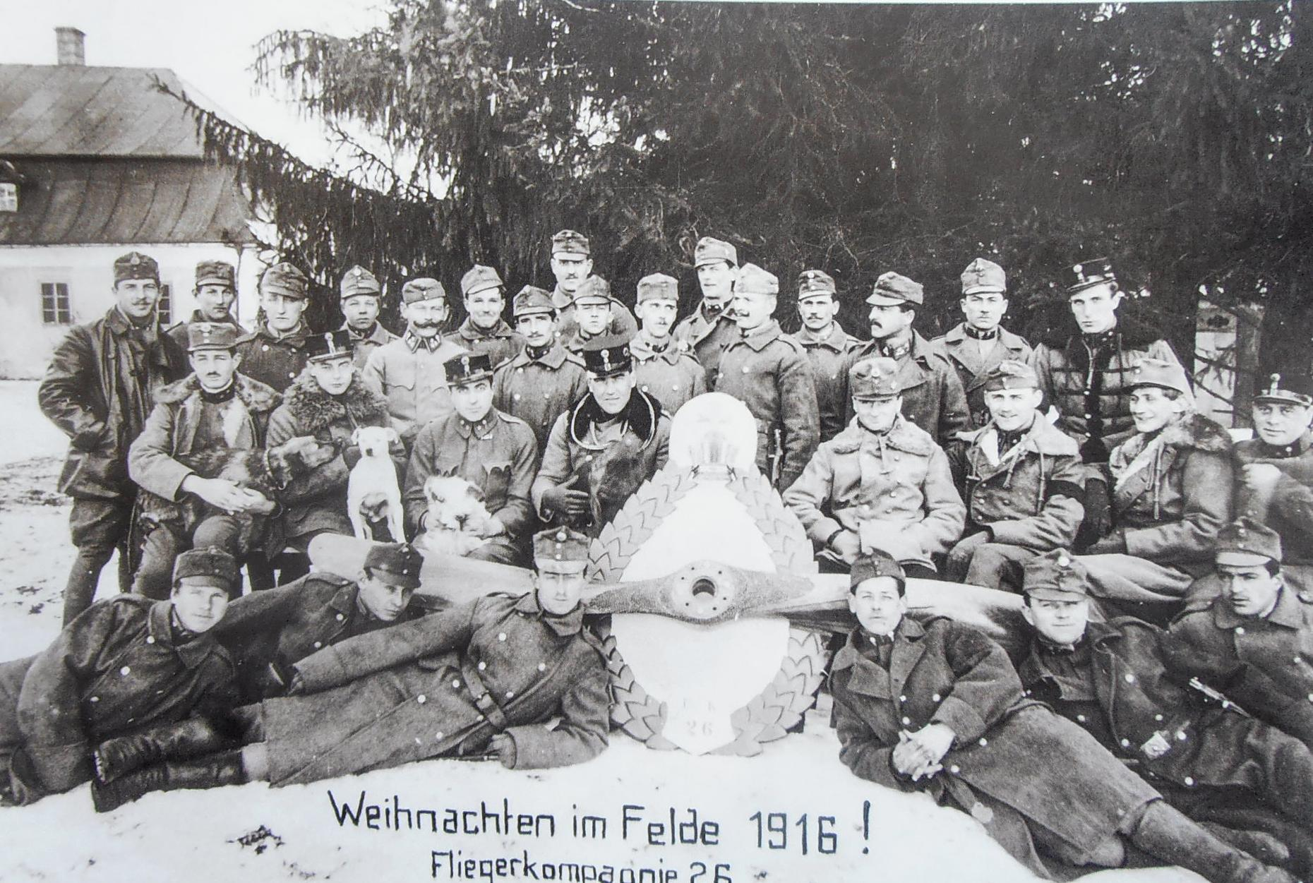 Flight squadron 26 of Austro-Hungarian Aviation Troops during WWI. In the middle row, second from left is Roman Schmidt, flying ace-to be